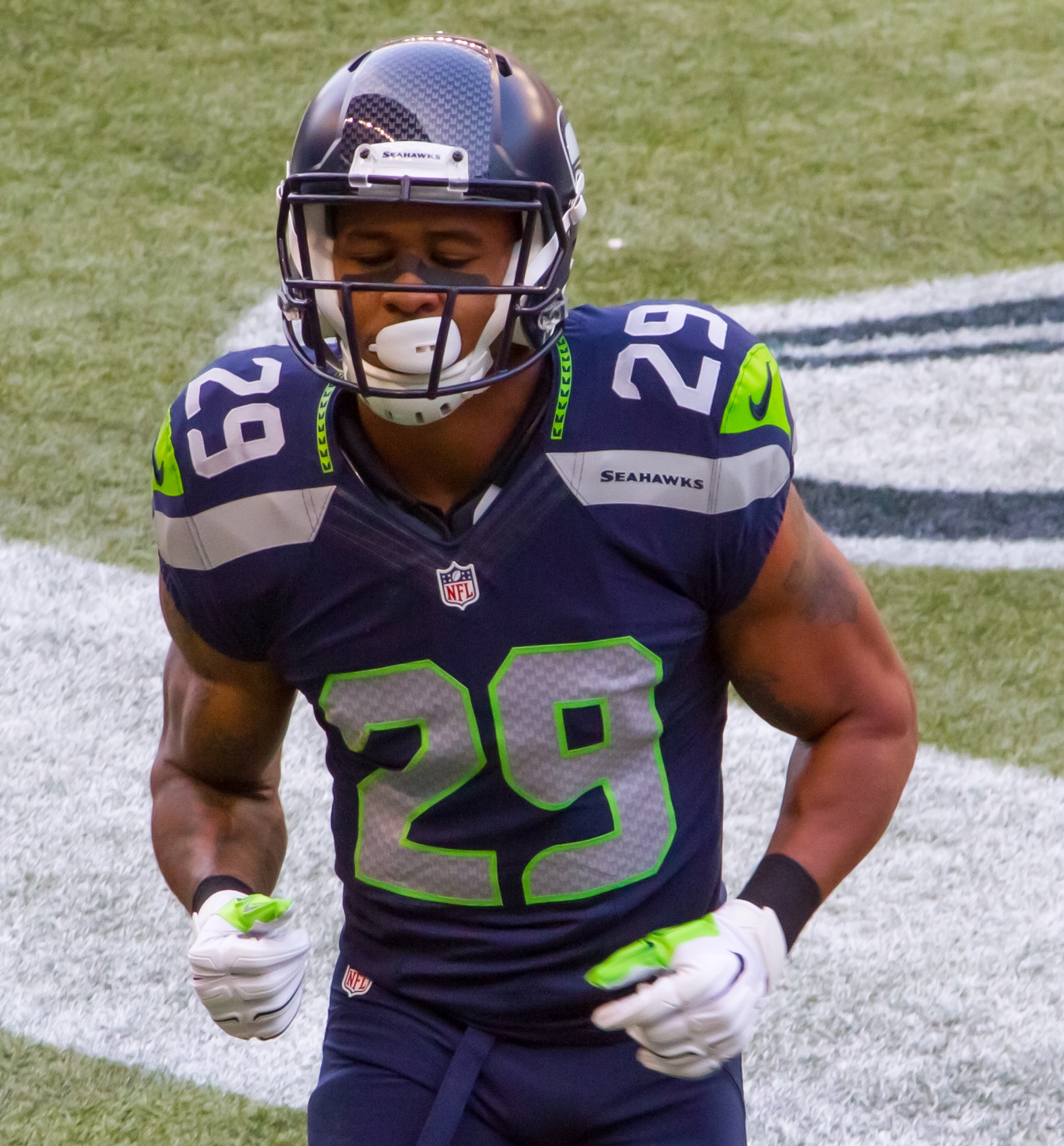 Earl Thomas in 2014 preseason vs. Chicago Bears